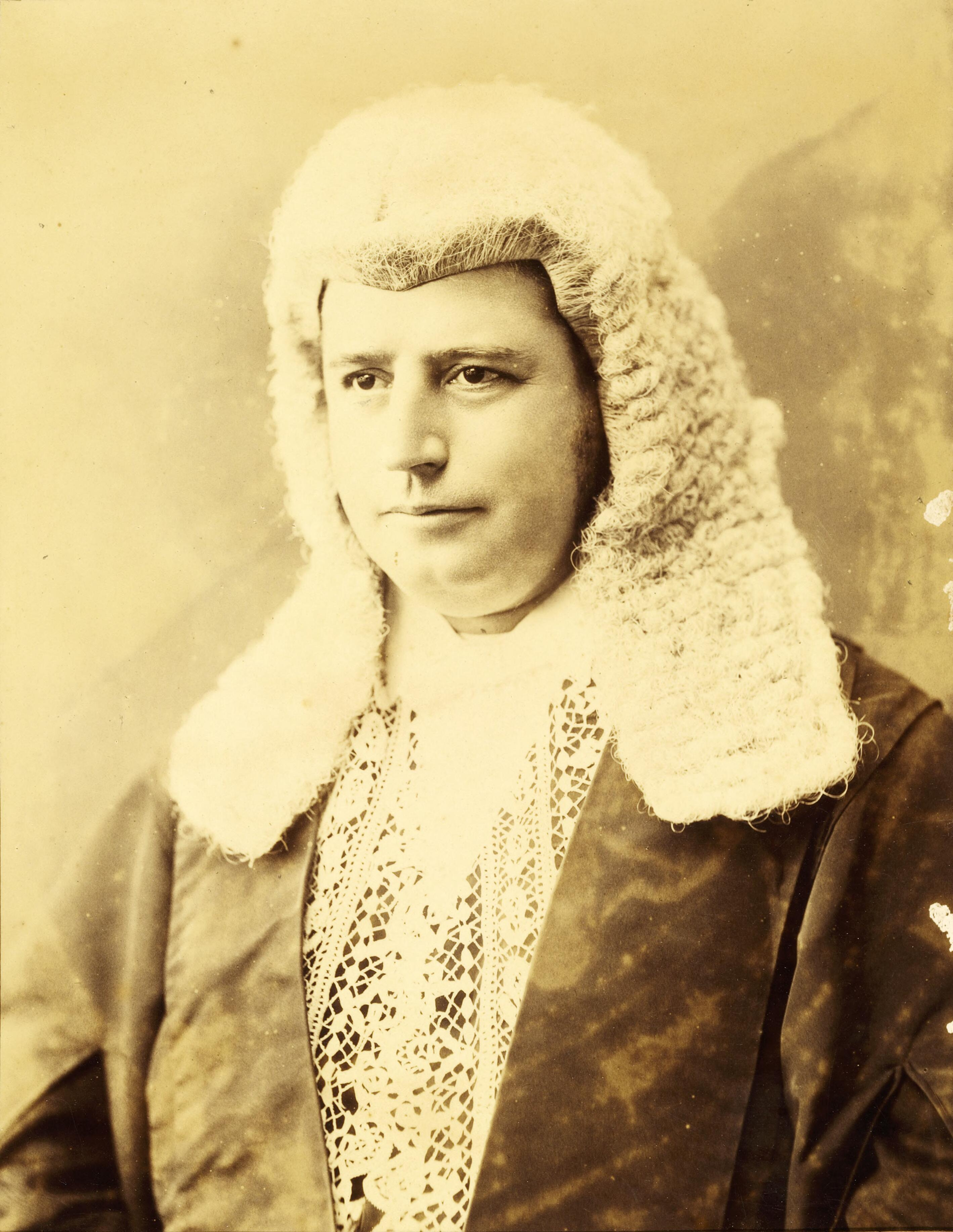 Australian politician Edmund Barton as Speaker of the New South Wales Legislative Assembly